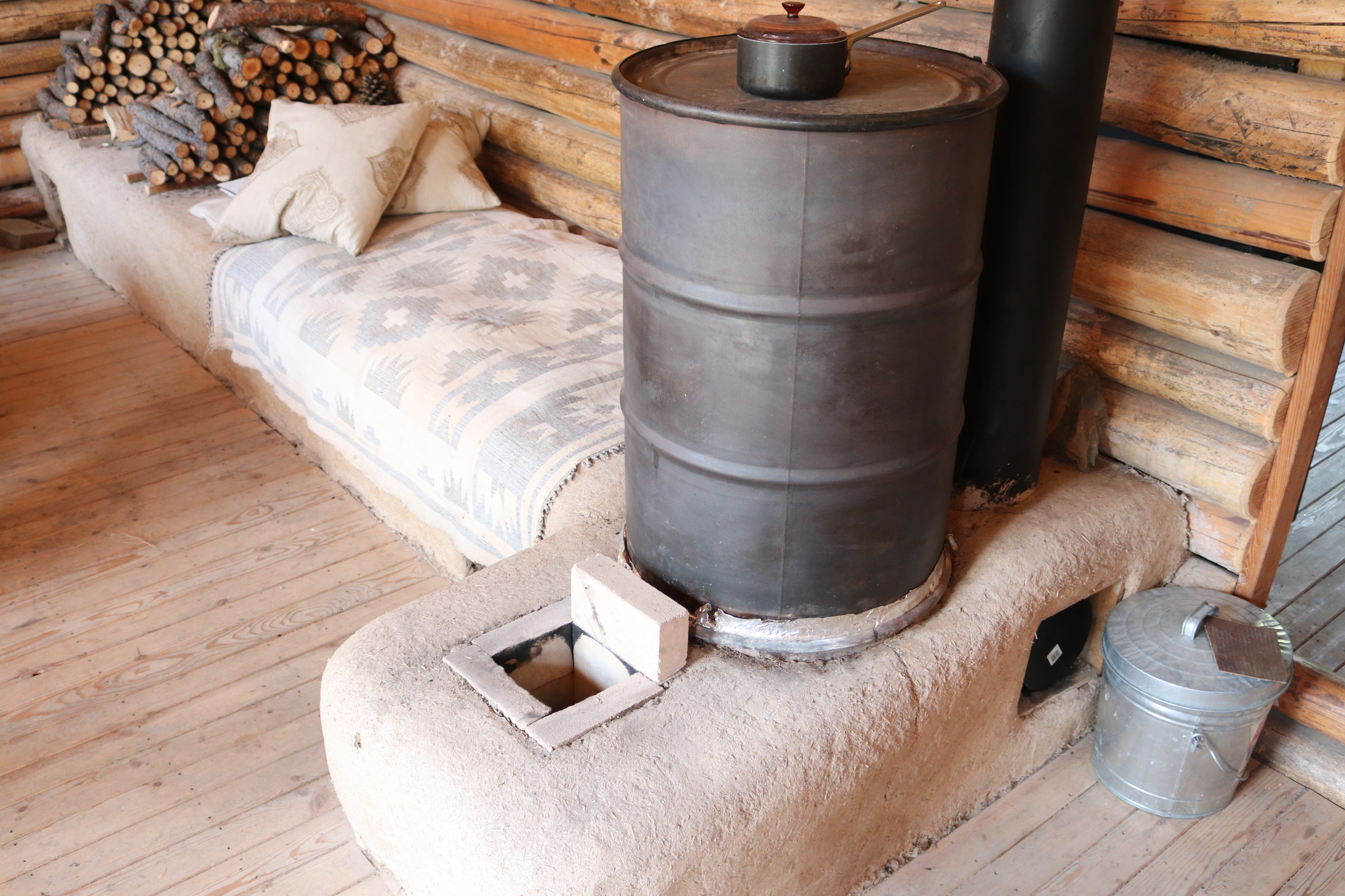 Cob style rocket mass heater at Wheaton labs